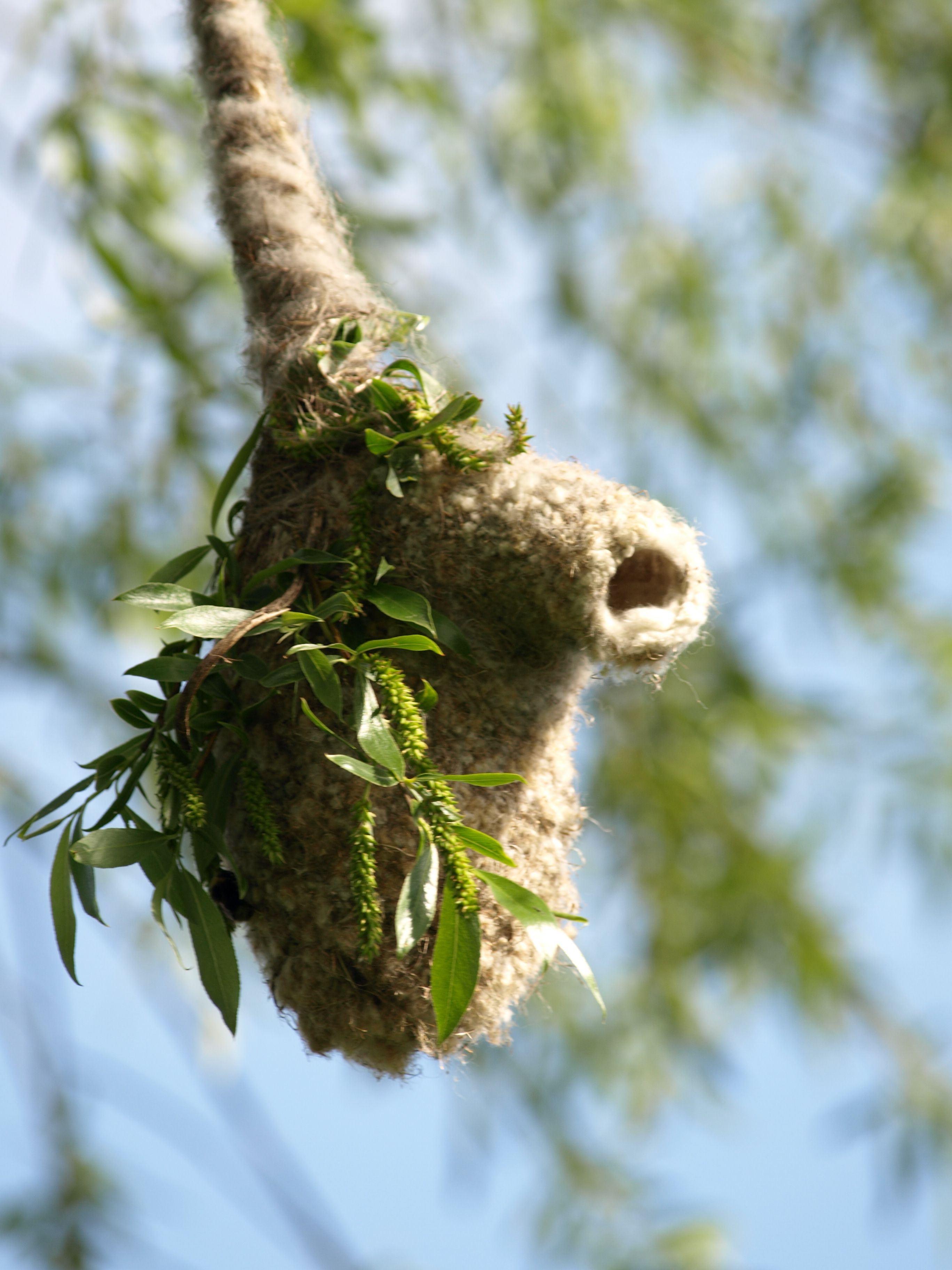 Nest of Remiz pendulinis Kwidzyn, Poland